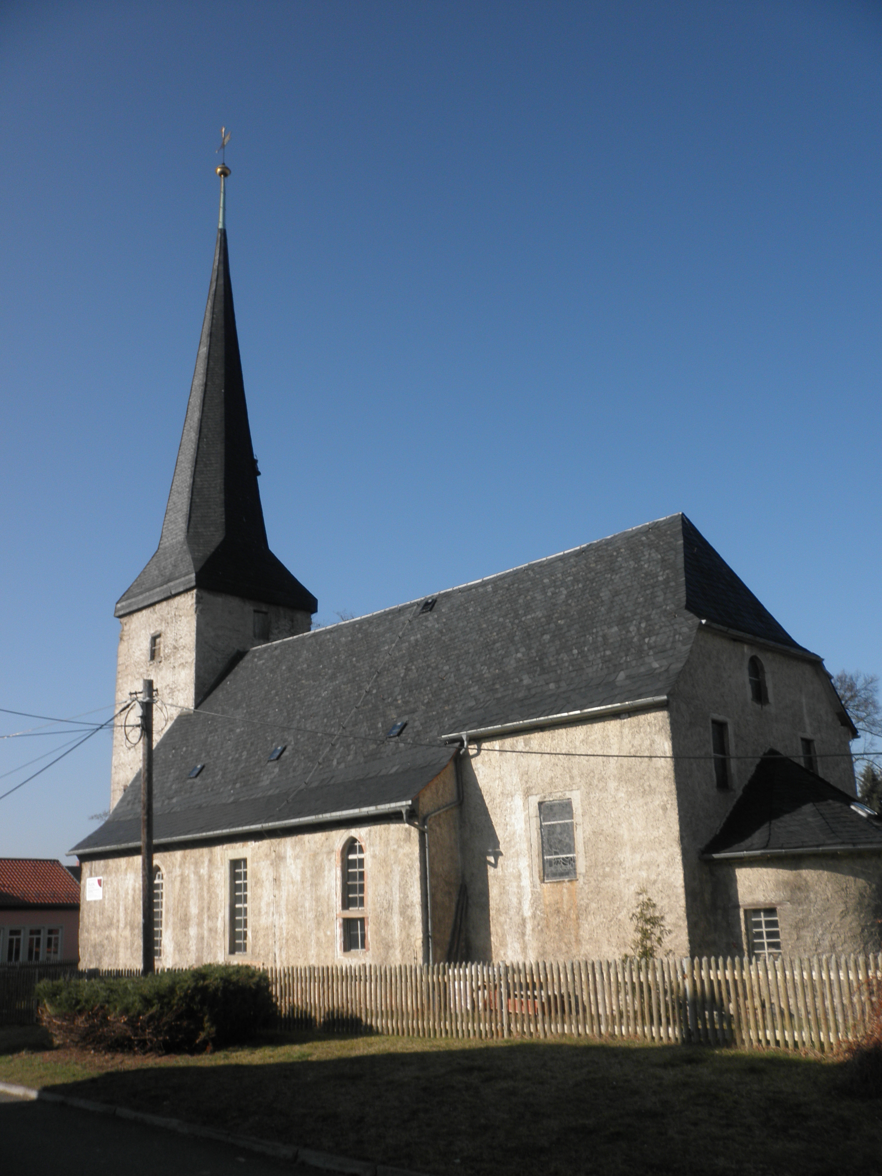 Church in Osthausen in Thuringia